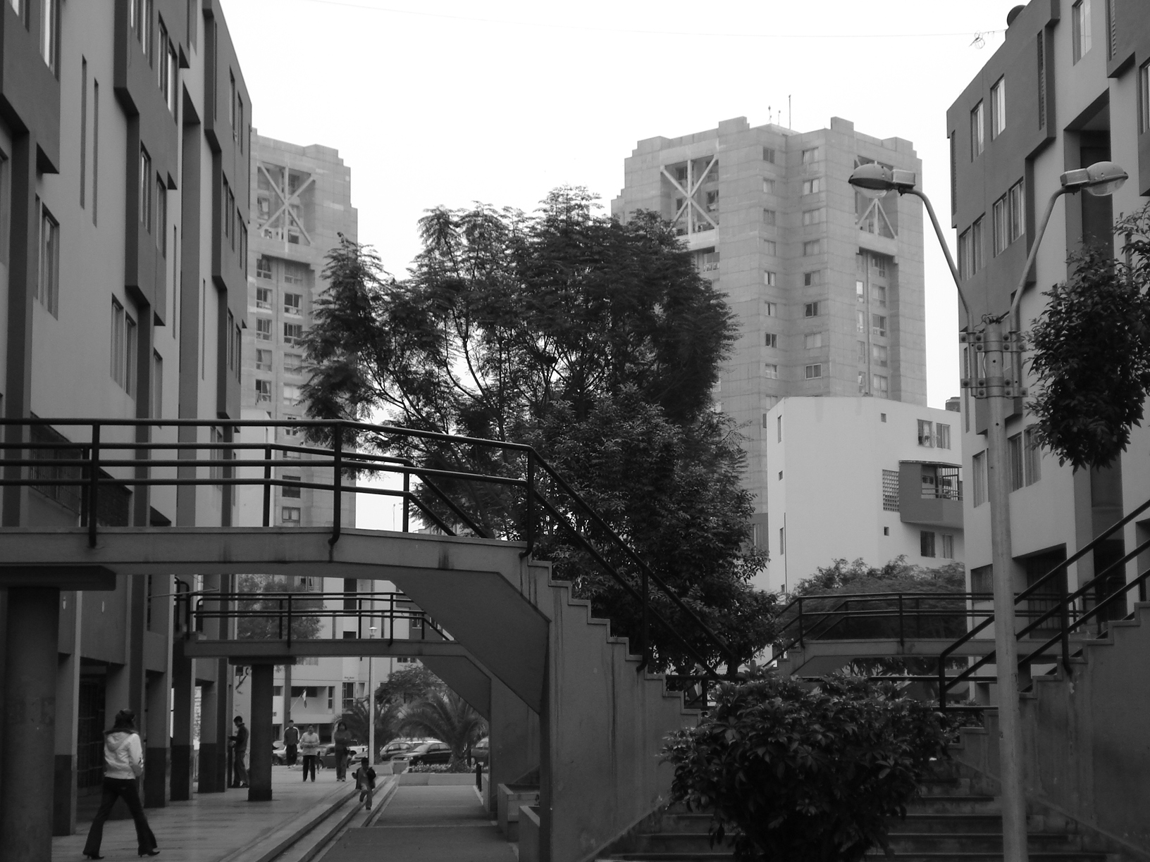 Limatambo, San Borja, Lima.